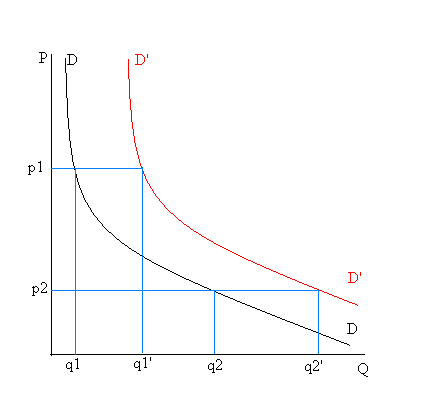 Shifting of demand curve